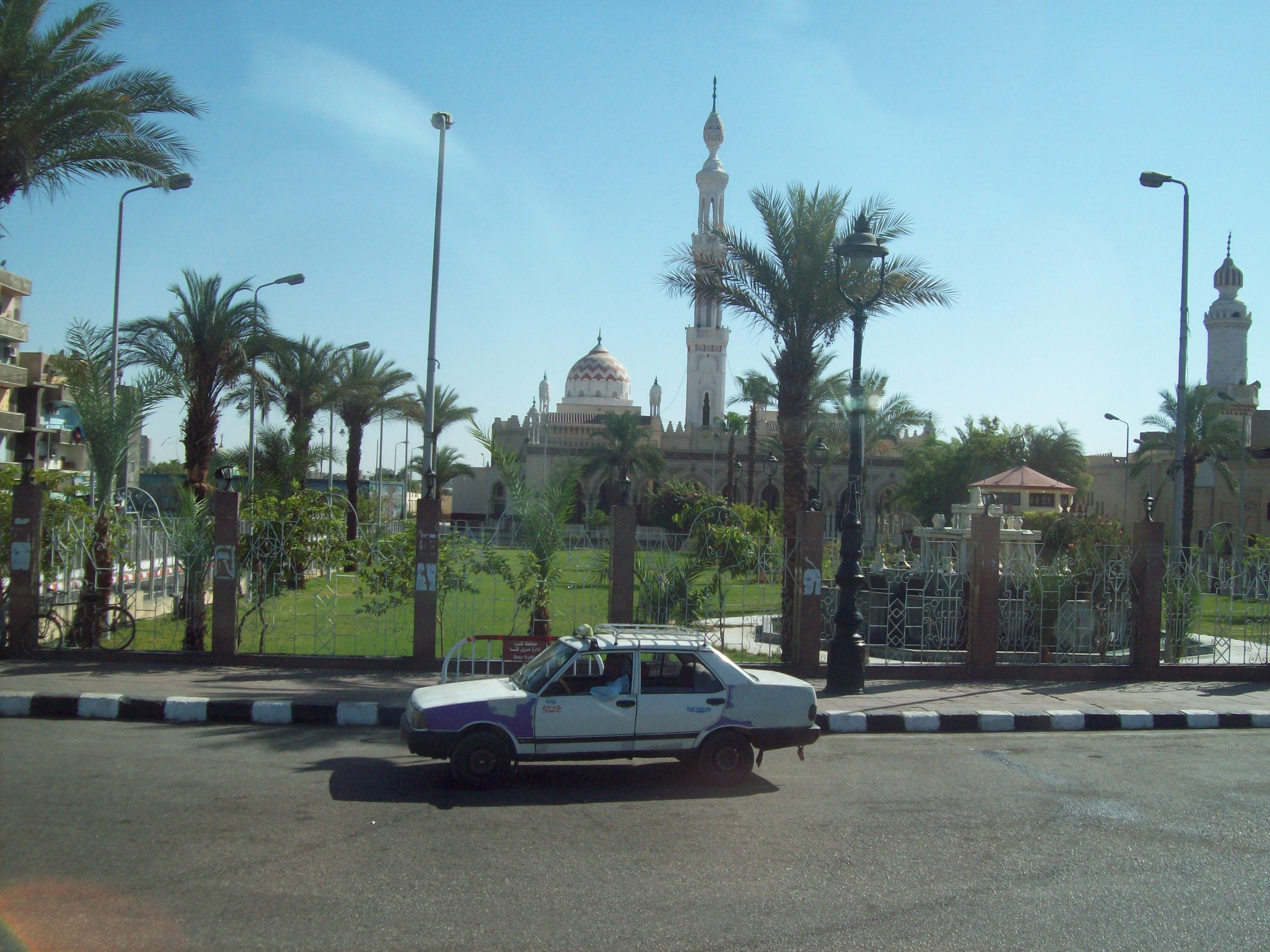 Luxor city view with a mosque